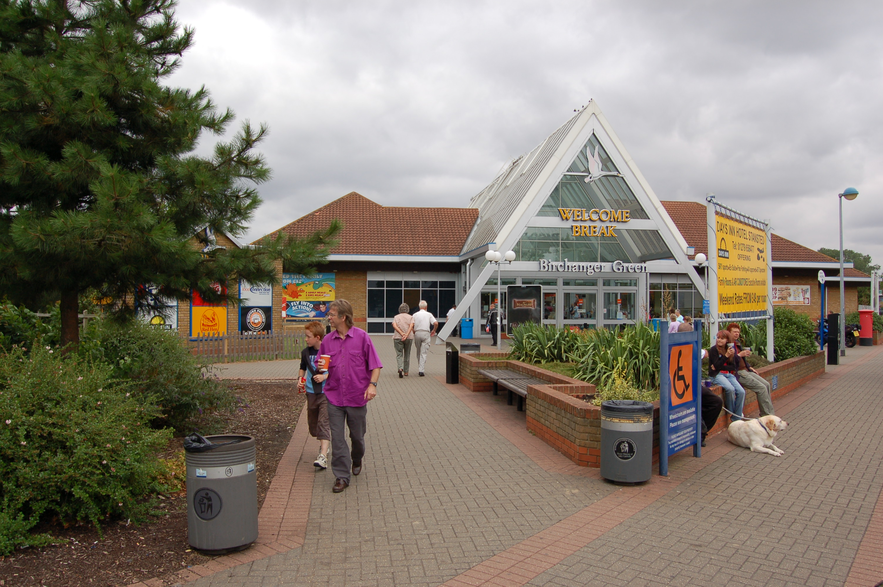 The Welcome Break facility at the Birchanger Green Motorway service station, Bishop's Stortford, East Hertfordshire, England.